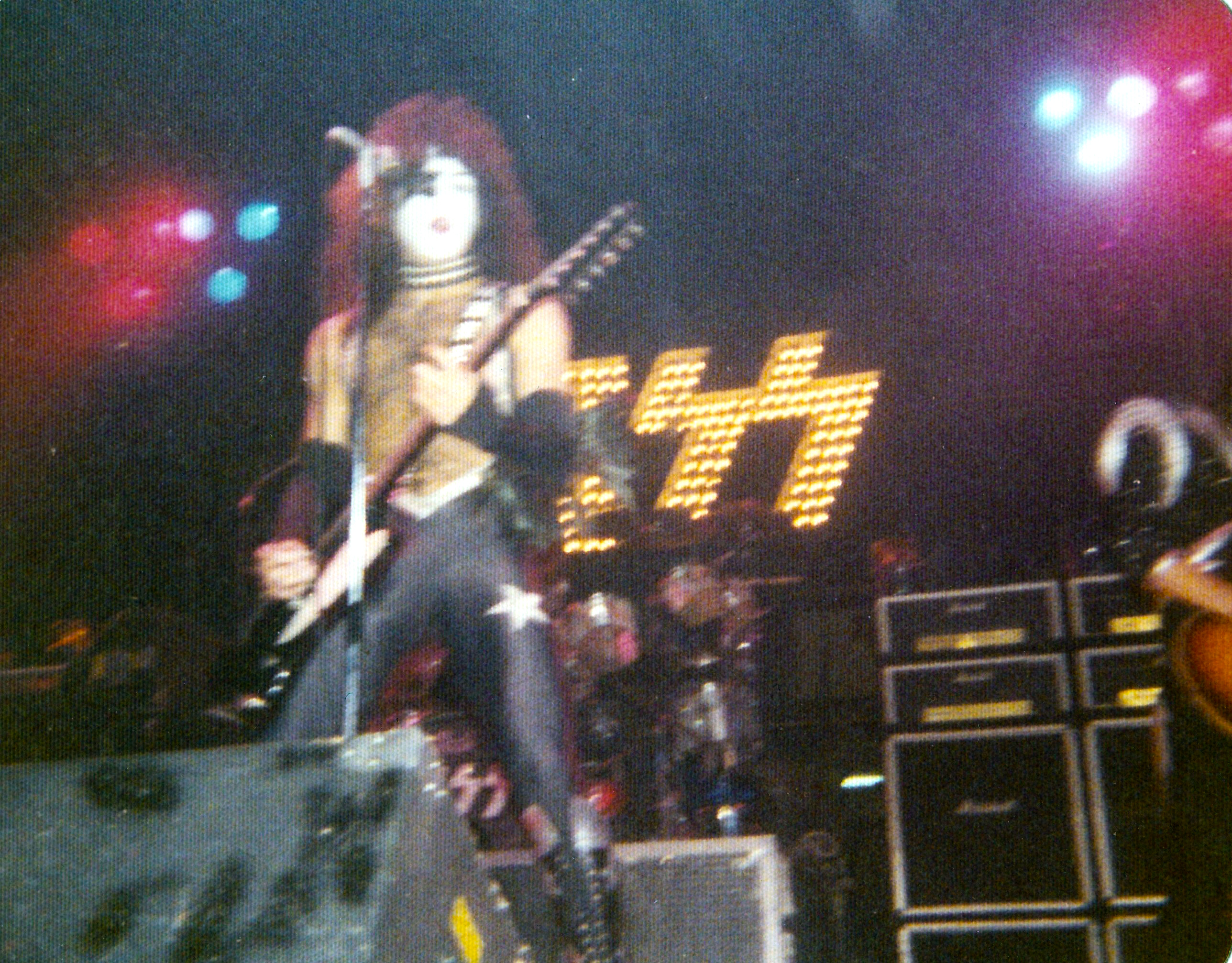 Paul Stanley from Kiss performing live at Winnipeg Arena.